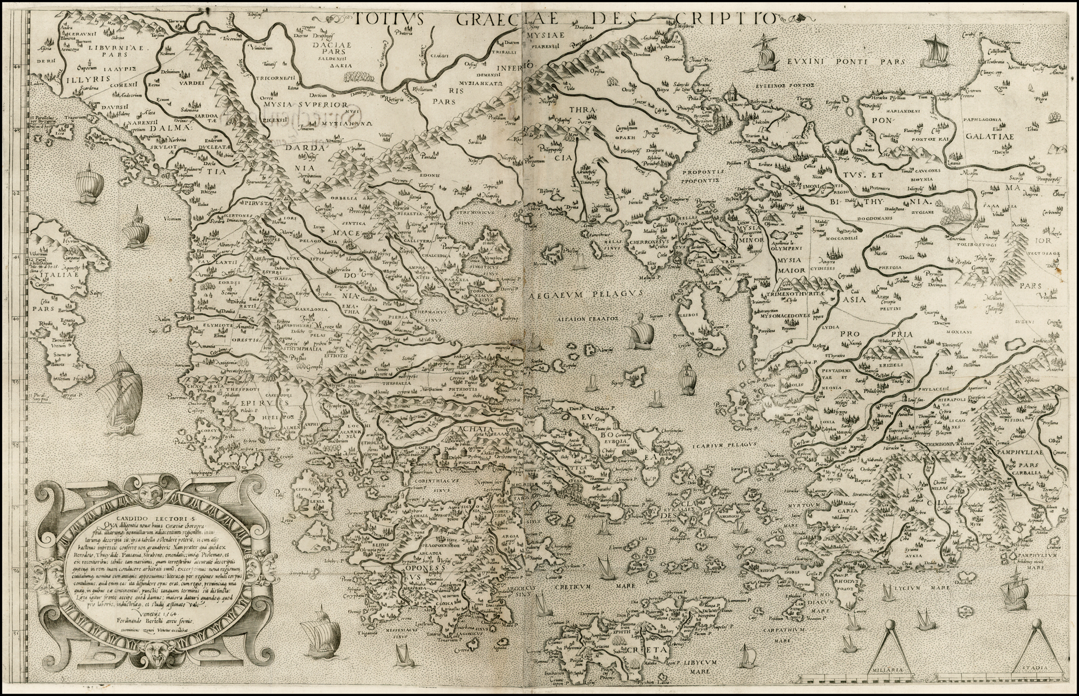 A picture of the Totuis Graeciae Descriptio map of ancient Greece, created in the 16th century. Other information A map created in 1564 by Ferrando Bertelli, based off Nikolaos Sophianos's 1540 Totius Graeciae Descripto.